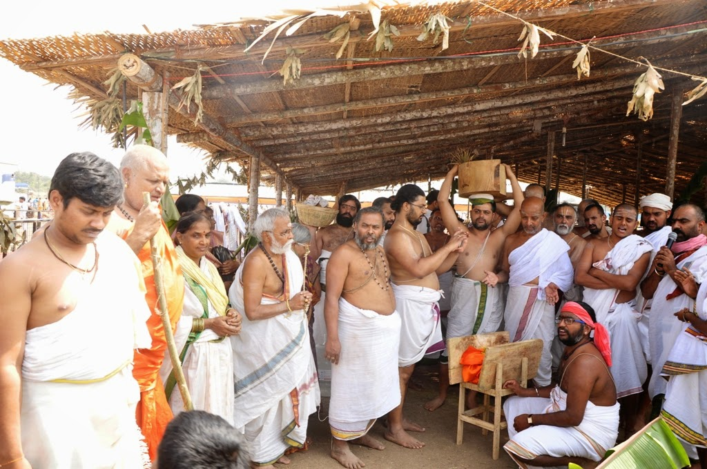 Drona kalasha is held over head for soma oblation during Hariyojana graha in Soma yaga. संस्कृतम्: सोमयागे हारियोजनग्रहे द्रोणकलशः मूर्द्धनोपरि गृह्य सोमाहुतिः दीयते। अयं चित्रः कर्नूल मध्ये ज्योतिष्टोम अप्तोर्यामयागे श्री राजशेखरशर्मणः संग्रहात् गृहीतमस्ति।